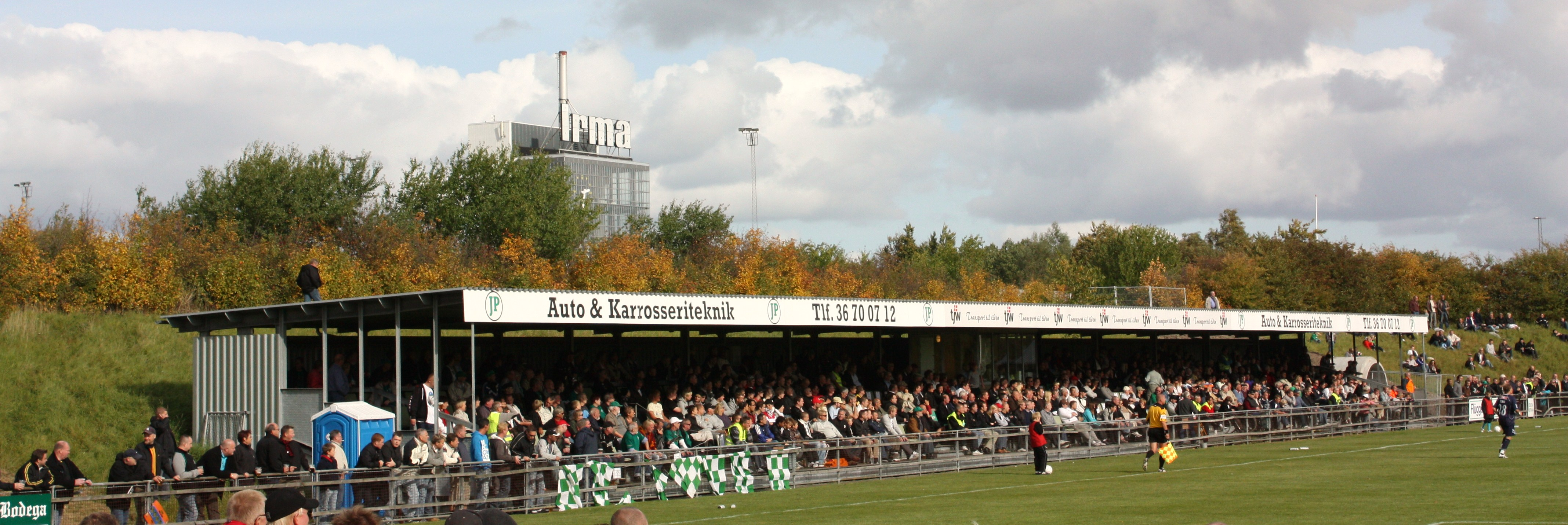 View of the main stand at Espelunden Stadium during a Danish Cup game between BK Avarta and AGF.